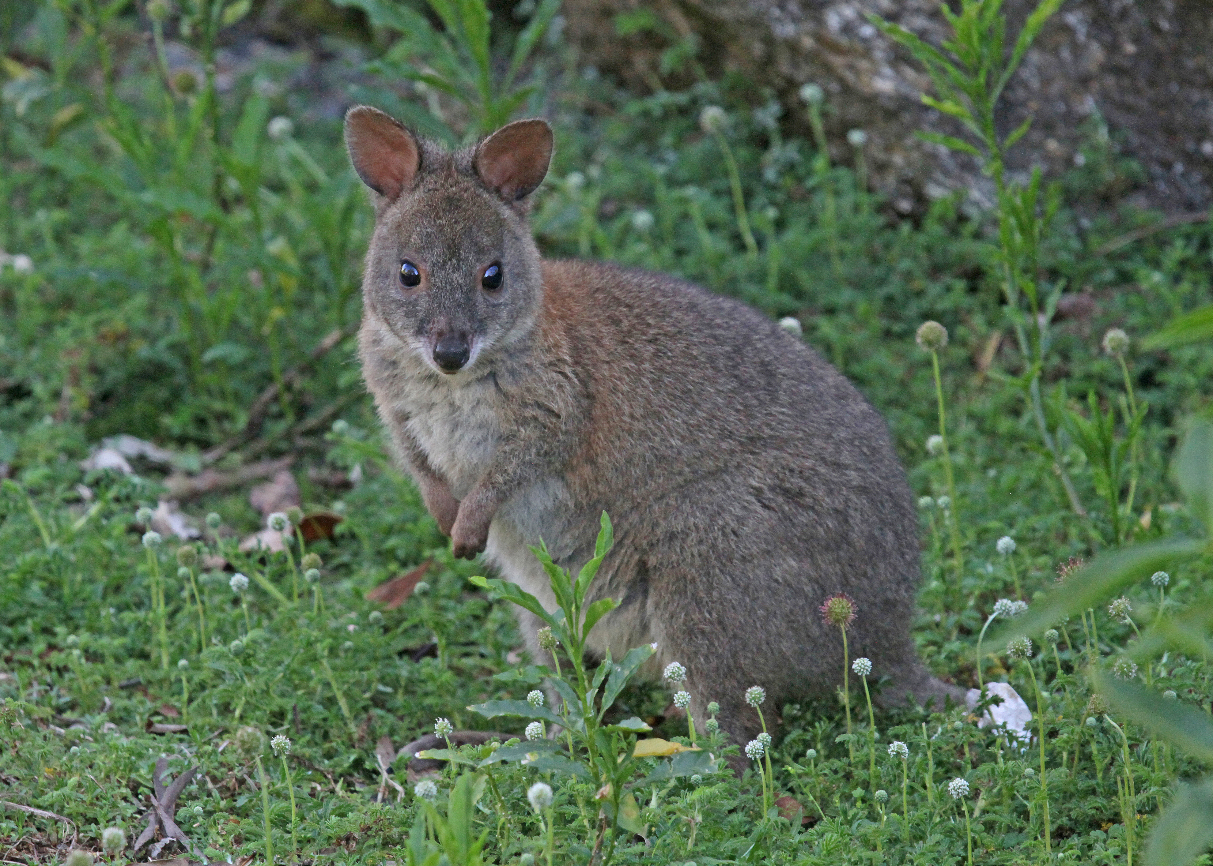 photo of Red-necked Pademelon